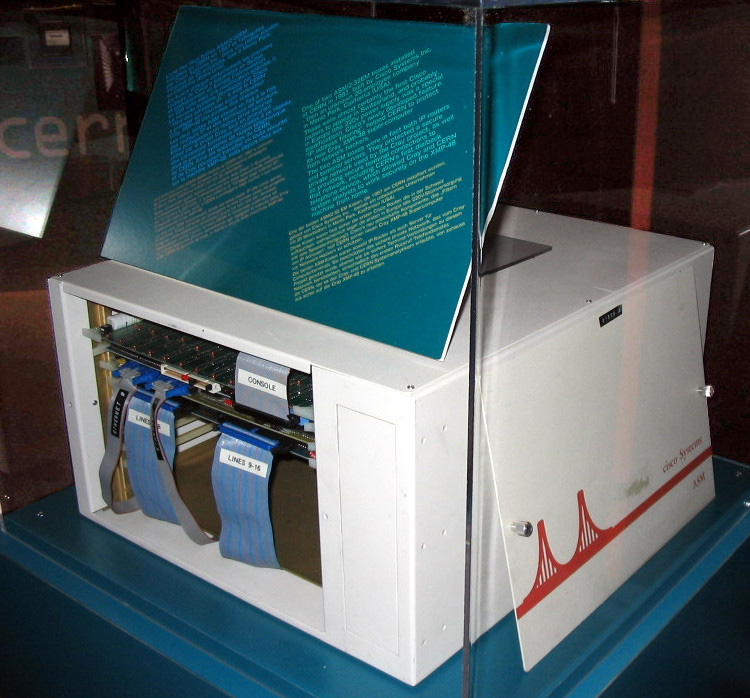 A Cisco Systems ASM/2-32EM router in the Microcosm public museum at CERN. This router was one of two installed at CERN in 1987; they are thought to have been the first Cisco routers in Switzerland and possibly the first in Europe.